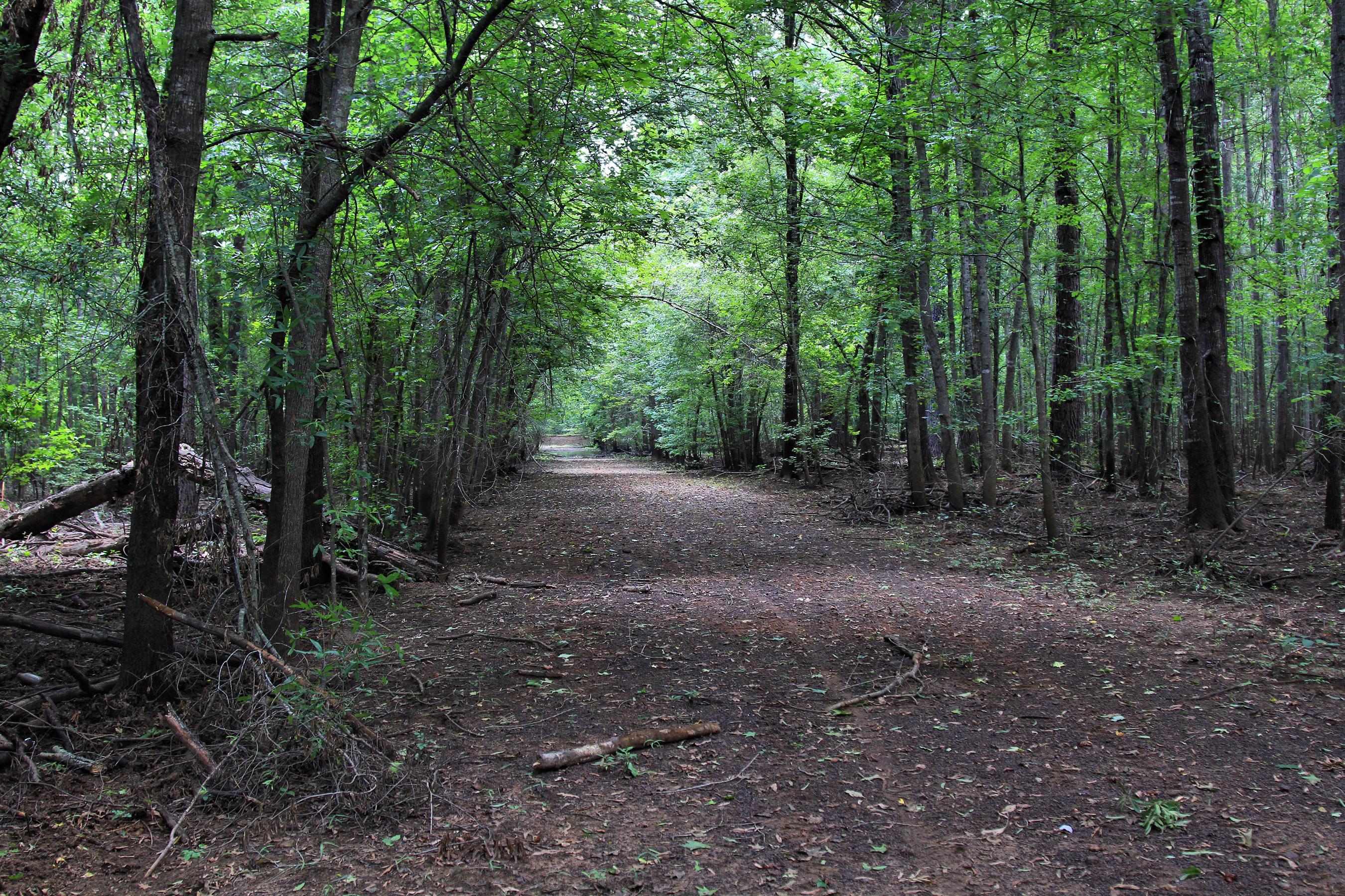 Songbird Trail trail head in Neches River National Wildlife Refuge in Cherokee County, Texas, United States.